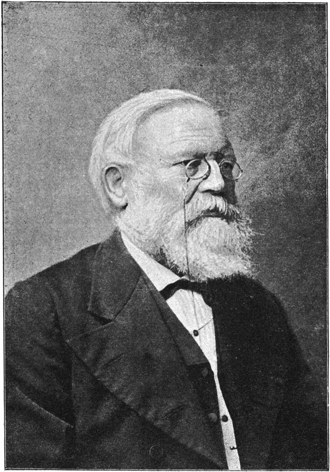 Karl Ernst Hermann Krause (1822–1893), German pedagogue and linguist